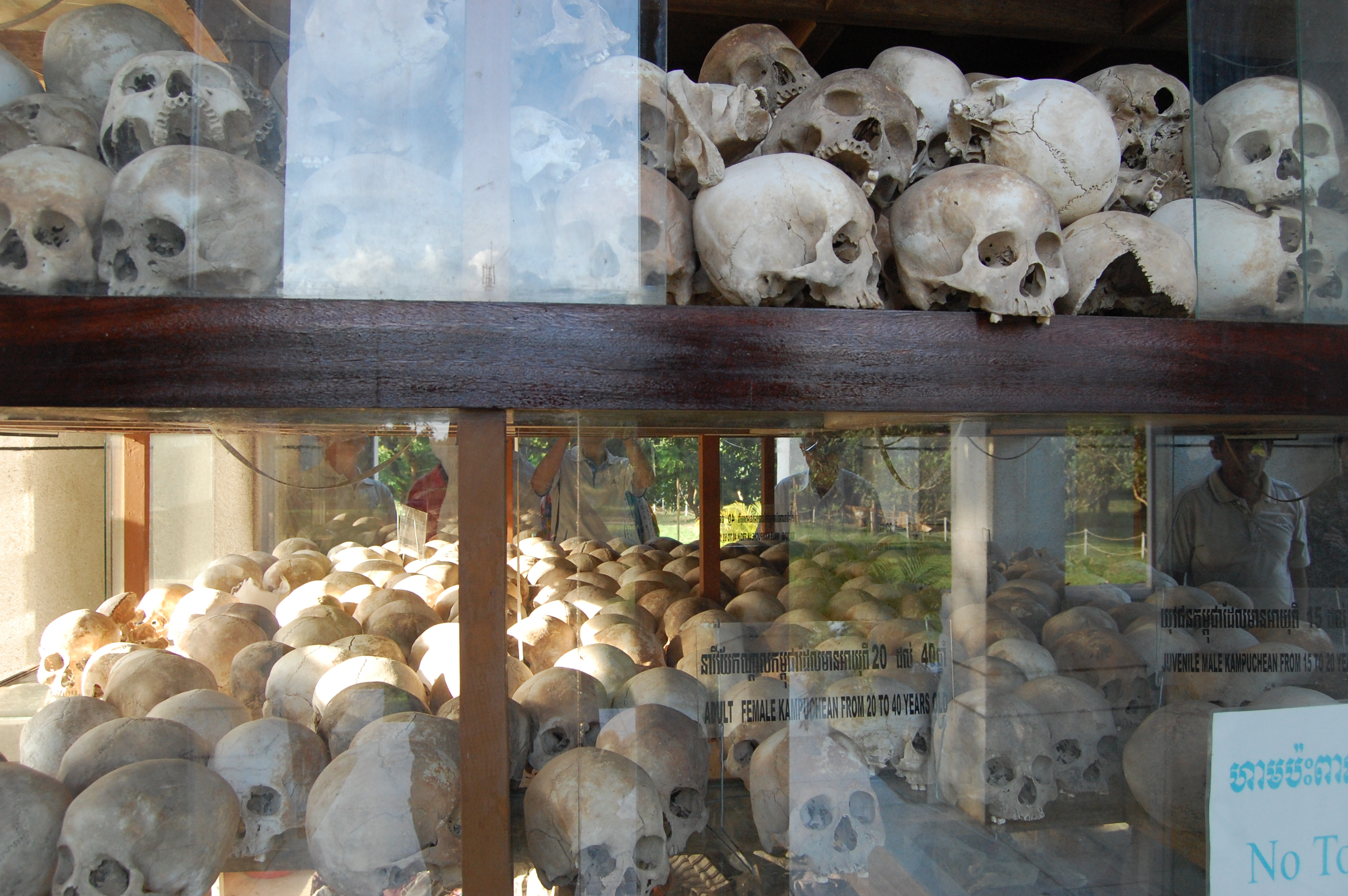 Close look at the Tower, where the skulls of the people killed by